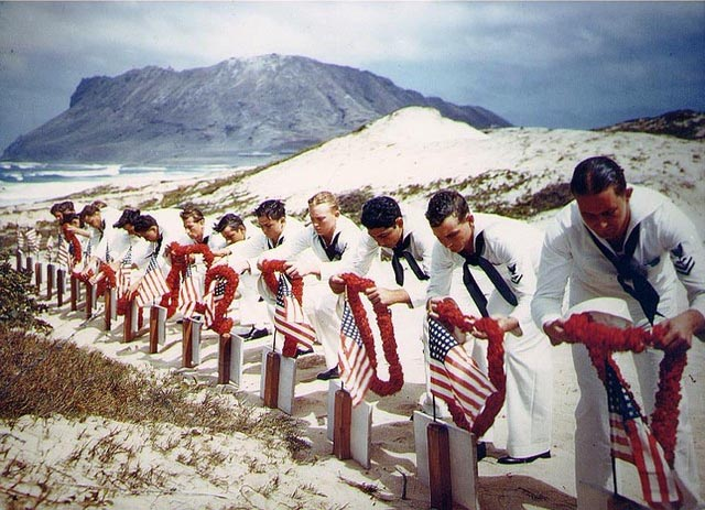 Memorial Service at NAS Kaneohe for men killed during the Japanese attack on Pearl Harbor. Photo #: 80-G-K-13328 (Color) "Farewell to Thee" Following Hawaiian tradition, Sailors honor men killed during the 7 December 1941 Japanese attack on Naval Air Station Kaneohe, Oahu. The casualties had been buried on 8 December. This ceremony took place sometime during the following months, possibly on Memorial Day, 31 May 1942. See Photo # 80-G-32854 for a photograph of the 8 December 1941 burial ceremonies.